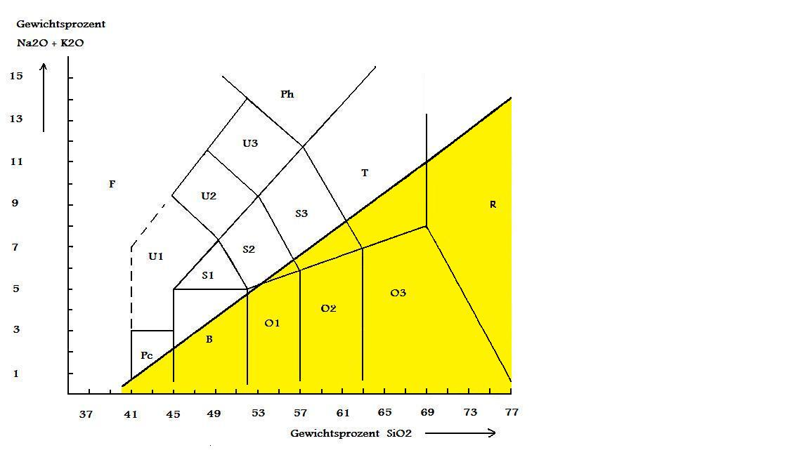 TAS diagram showing the subalkaline field of magma compositions in yellow